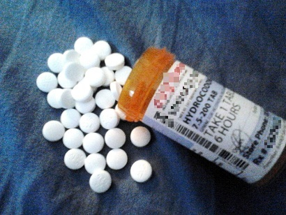 Hydrocodone bitartrate 7.5 mg / ibuprofen 200 mg tablet (generic Vicoprofen) manufactured by Watson